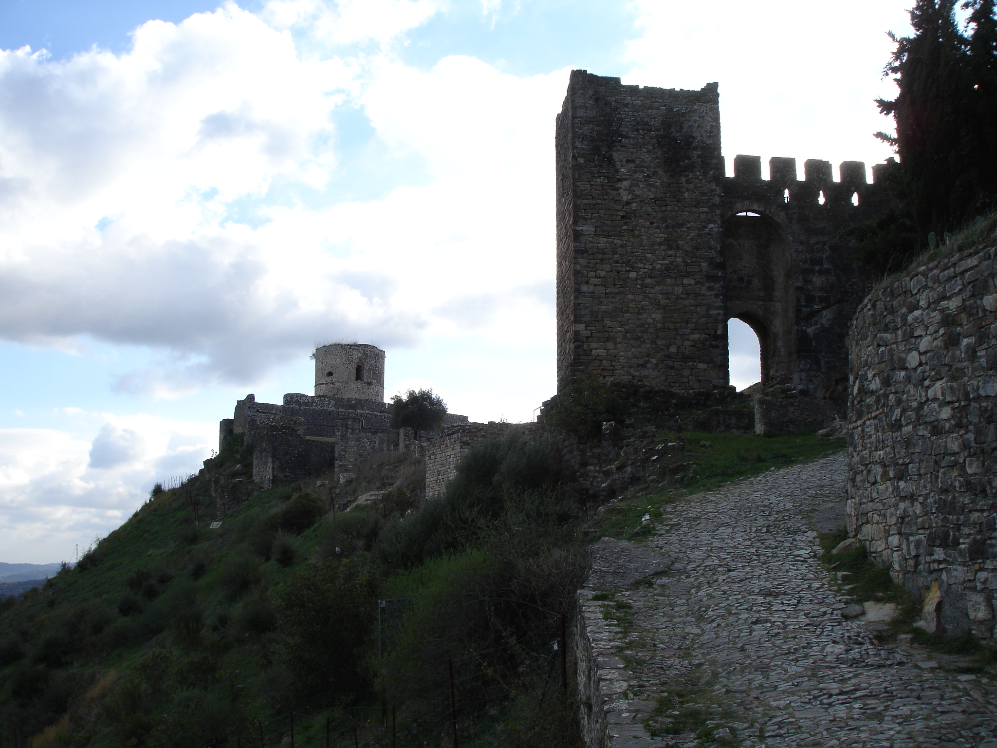 Castle, Jimena, Spain